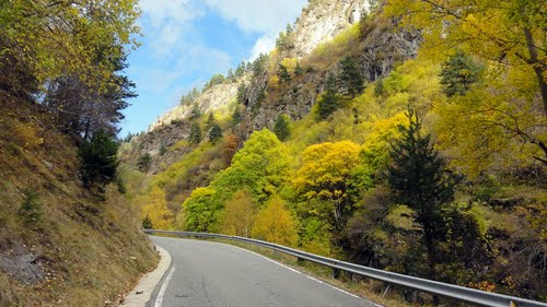 Al-Mazar, Irbid